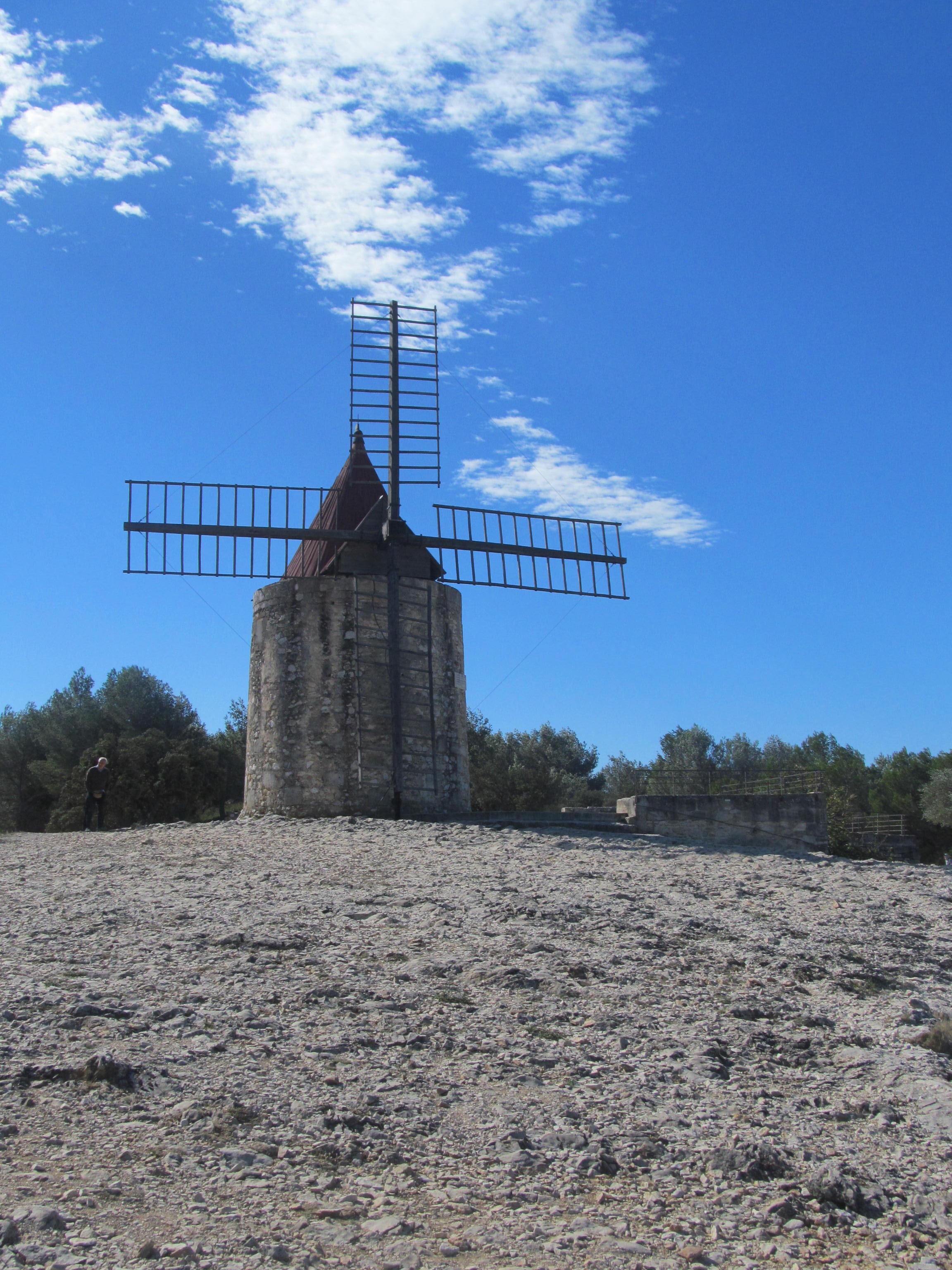 Daudet´s Mill near near Fontvieille in Provence